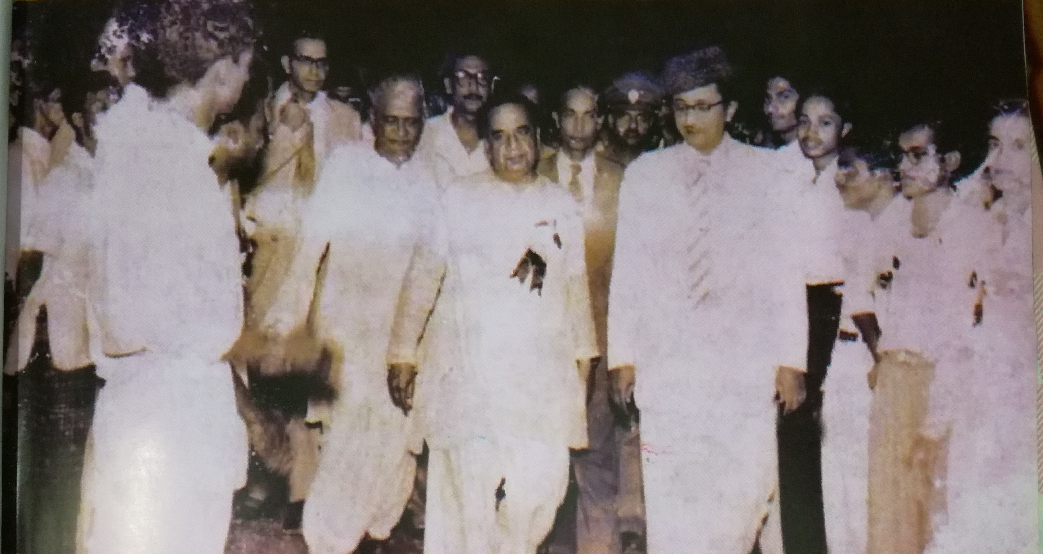 1957, Chittagong Medical Collge